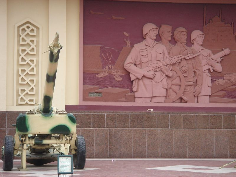 at the October War Panorama exhibit, Cairo